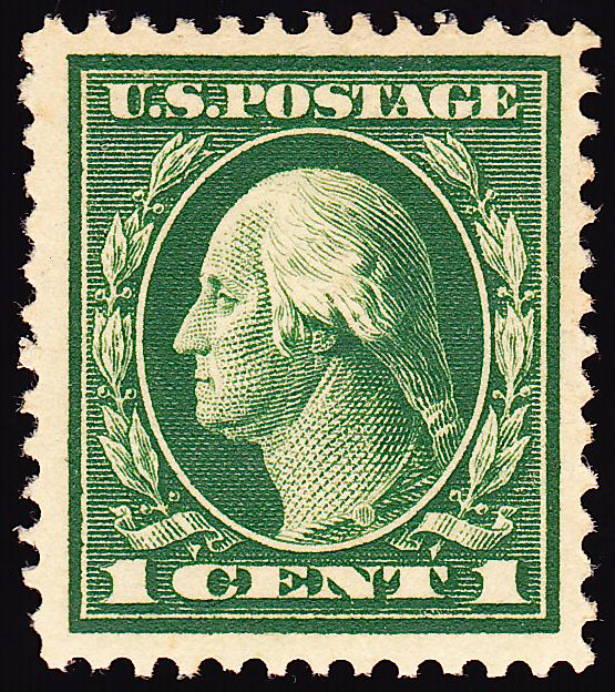 US Postage stamp, Washington Franklin, 1912 issue, 1c, green